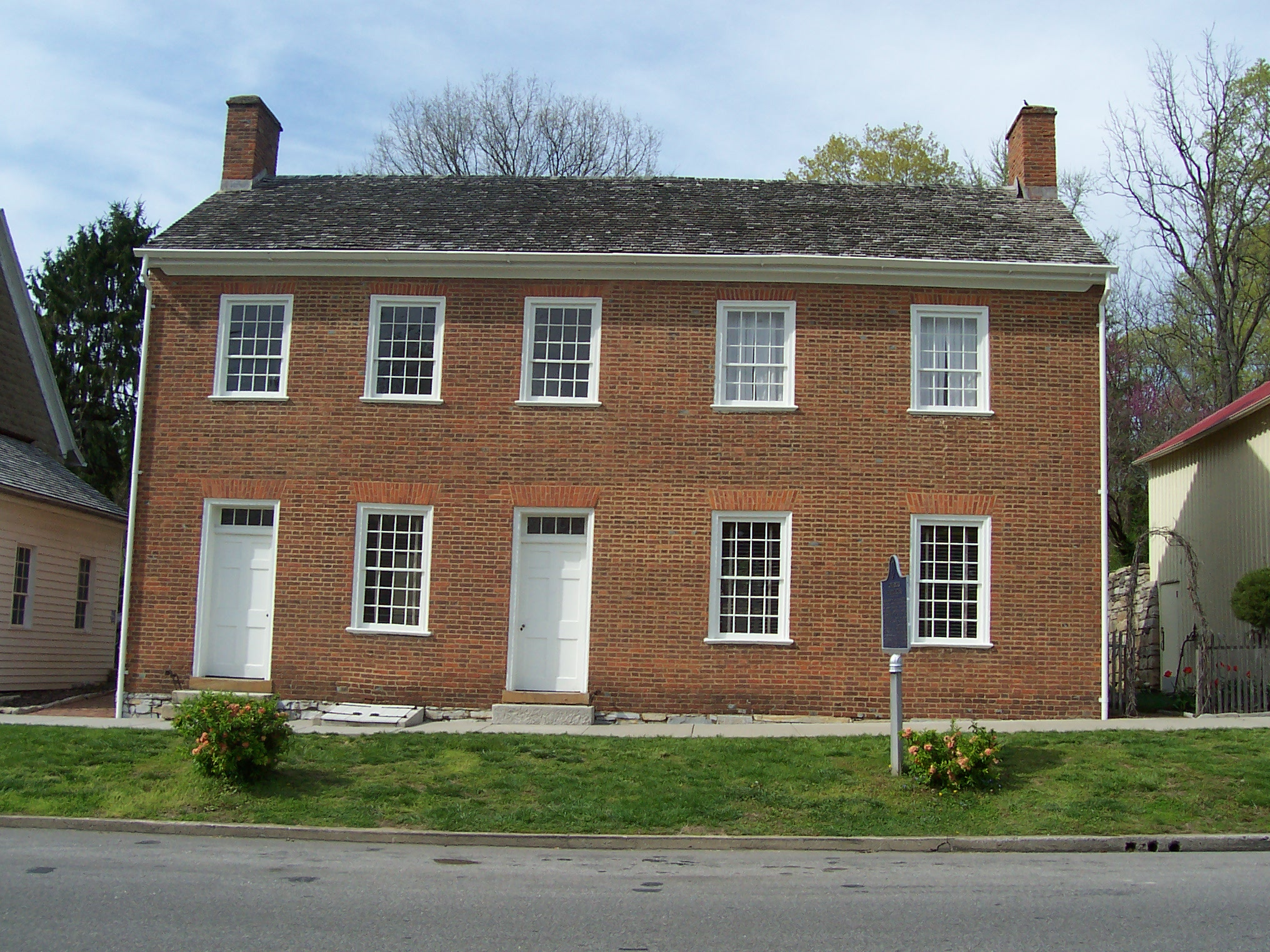 Governor's Headquarters in Corydon, Indiana. Built by Davis Floyd c 1816, purchased by Indiana c 1820. Inhabited by William Hendricks c 1820-1824. Sold by the state c 1840. This was Indiana's first "Governor's Mansion".